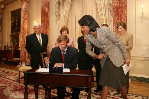 Mrs. Laura Bush, along with family of Ambassador Mark Dybul, watch as U.S. Secretary of State Condoleezza Rice assists newly sworn-in Ambassador Mark Dybul as he signs appointment documents Tuesday, October 10, 2006, during the swearing-in ceremony of Ambassador Mark Dybul in the Benjamin Franklin Room at the U.S. Department of State in Washington, D.C. White House photo by Shealah Craighead